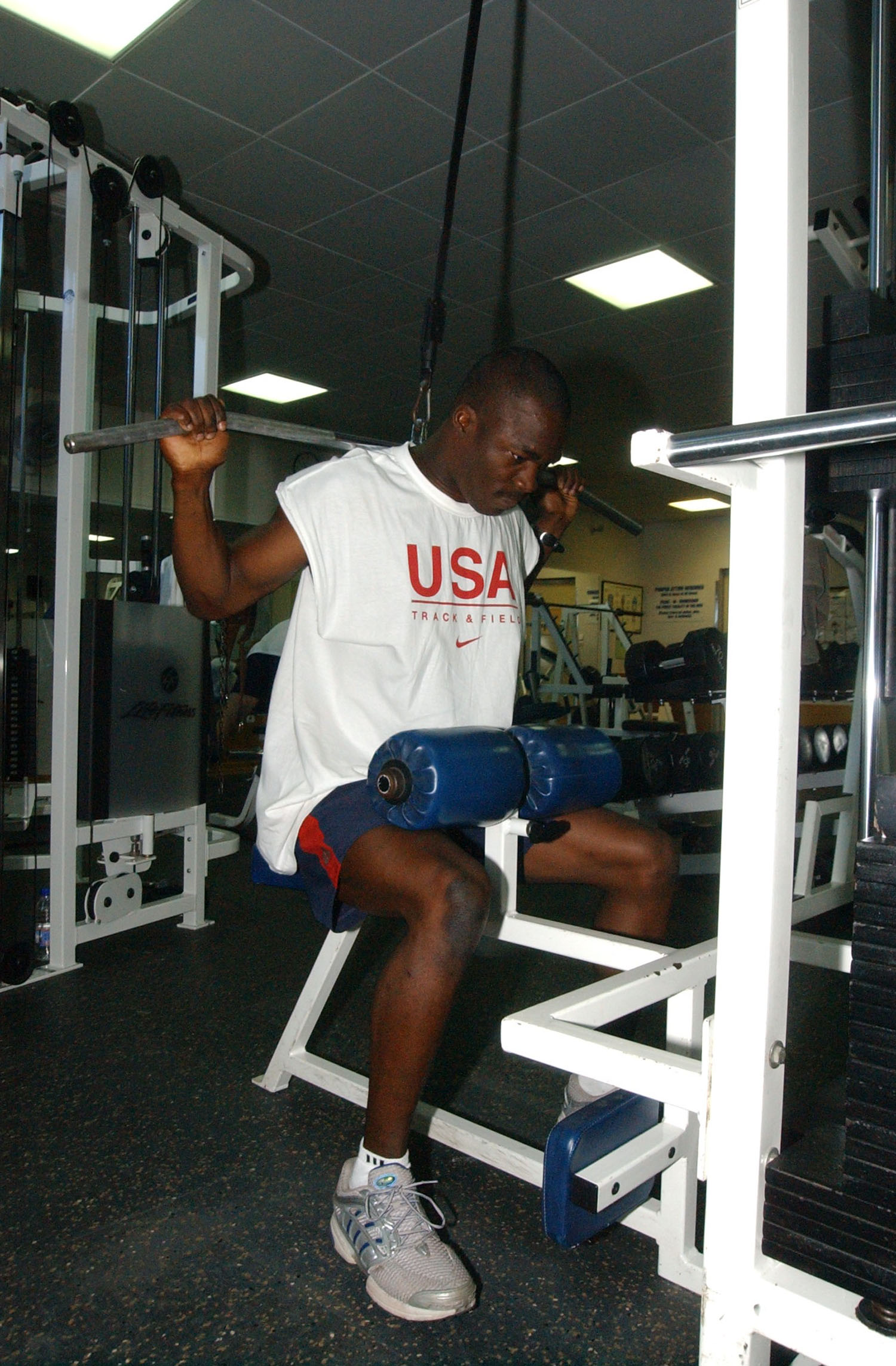 Souda Bay, Crete, Greece (Aug. 12, 2004) - U.S. Olympic Team sprinter John Capel, works out in the Naval Support Activity (NSA) Fitness Center in preparation for the upcoming 2004 Summer Olympic Games. Capel is the second fastest American ever to run the 200-meters and is scheduled to compete in the 100m, 200m and the 4x100m relay. U.S. Navy photo by Paul Farley (RELEASED)